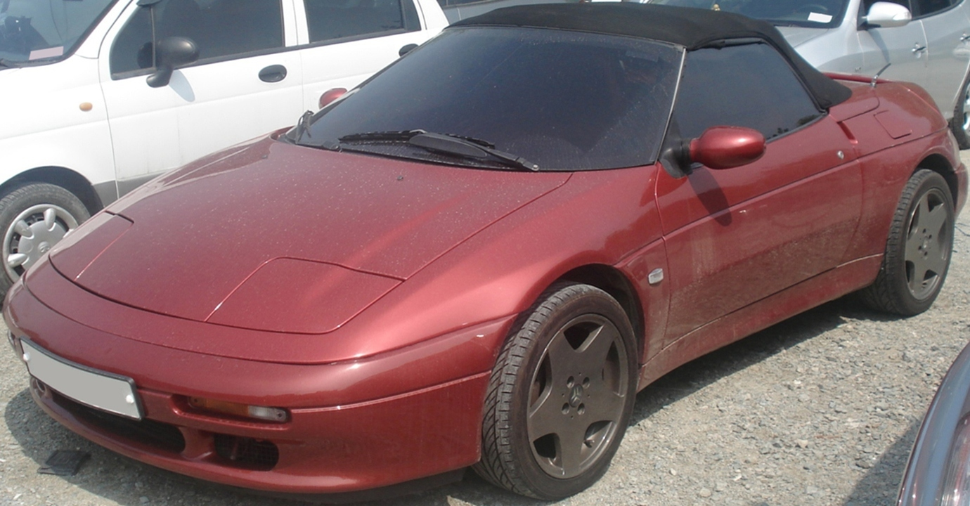 Kia Elan